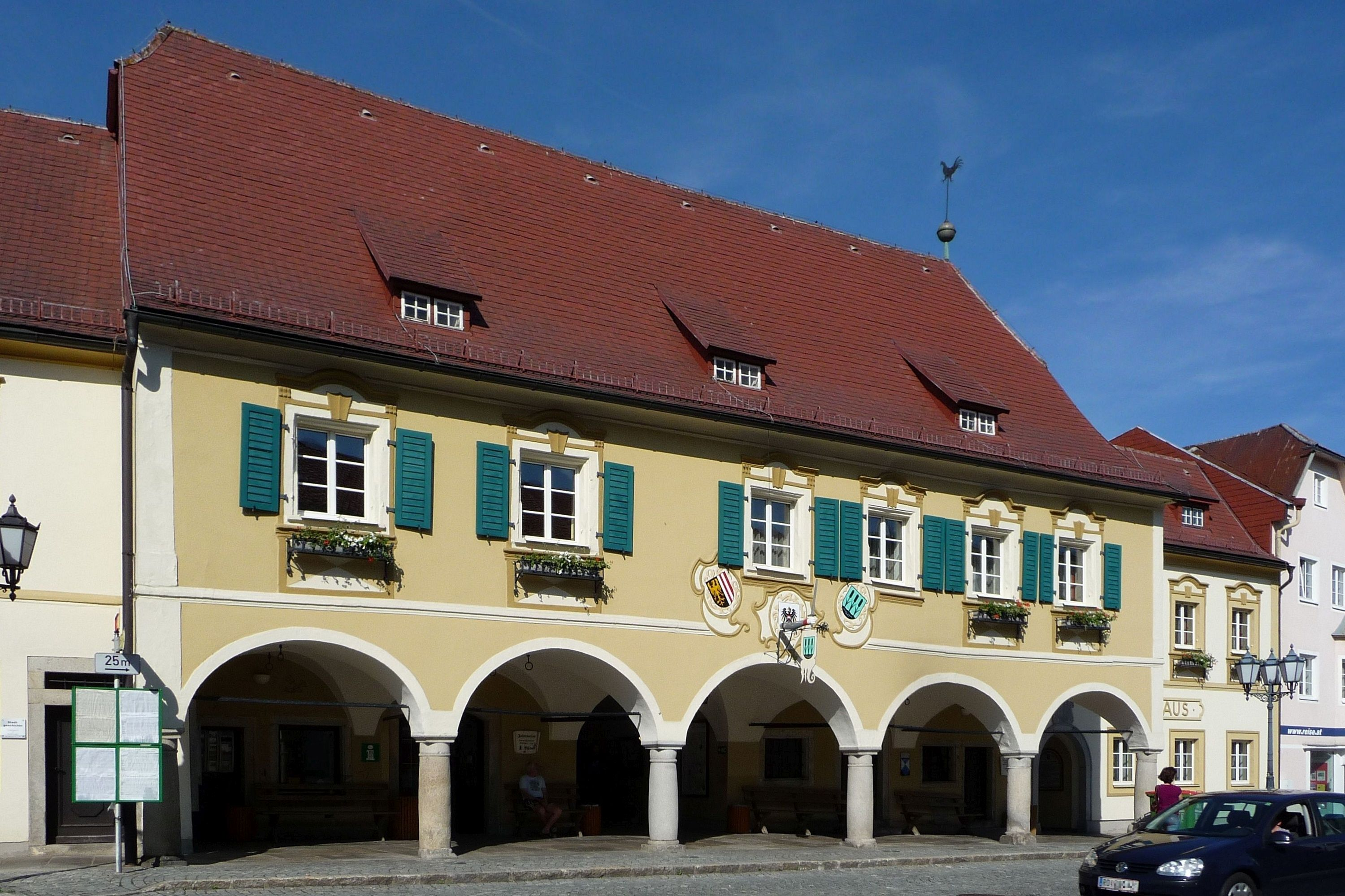 City Hall of Rohrbach in Upper Austria